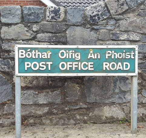 Post Office Road in Lusk is in the northern half of the small town, located off the Skerries Road